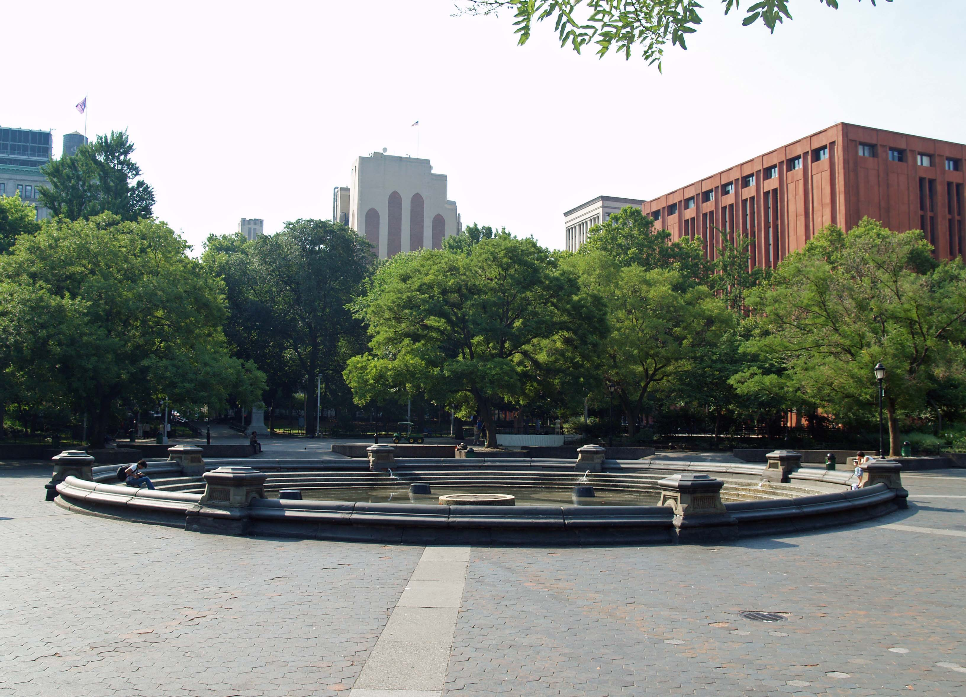 Central Fountain in Washington Square Park by David Shankbone